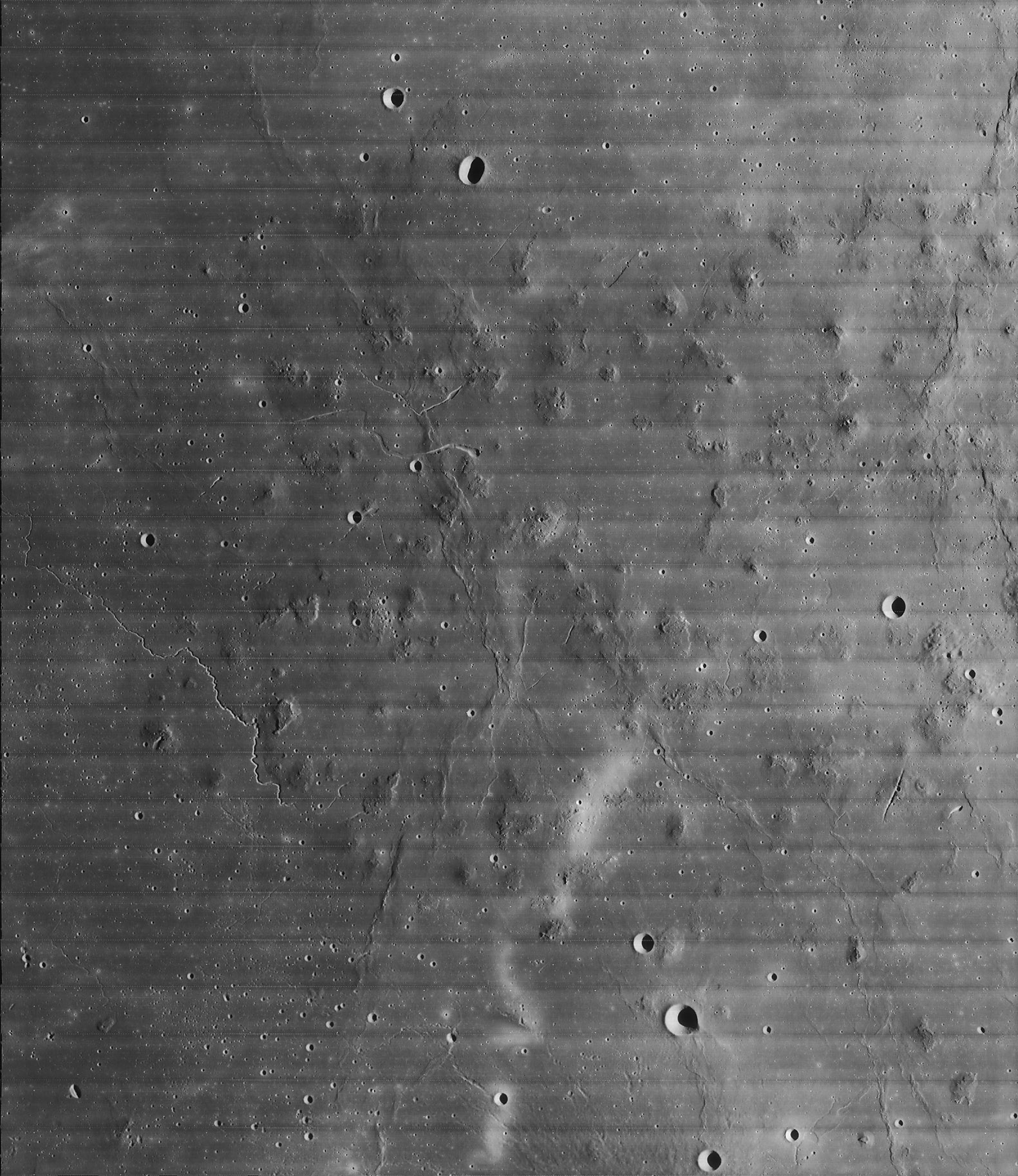 An overhead view of the Marius Hills dome field taken from the Lunar Orbiter 4 spacecraft.